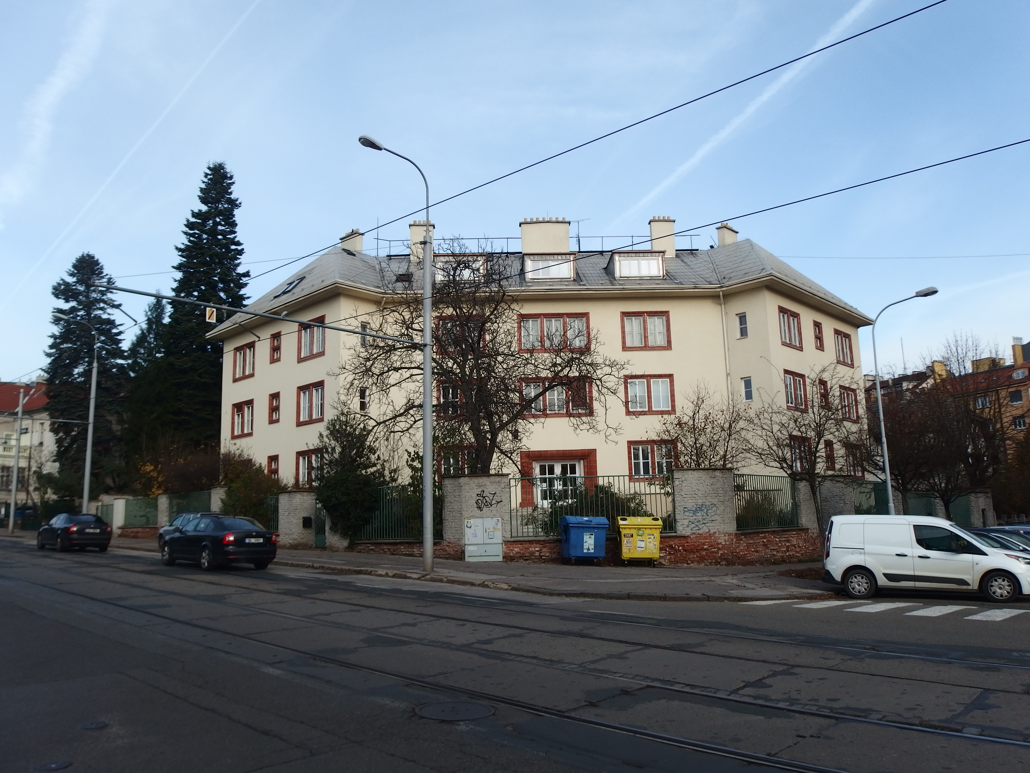 Brno, Czech Republic. Údolní Street.